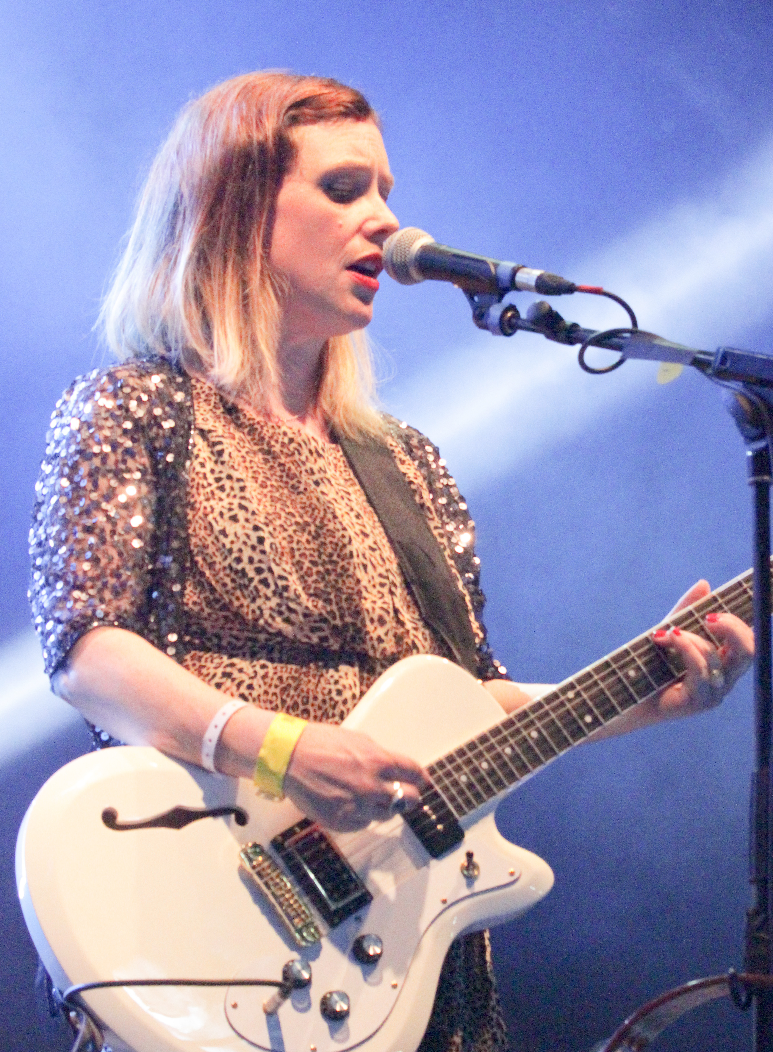 Slowdive at the Wave-Gotik-Treffen 2014.